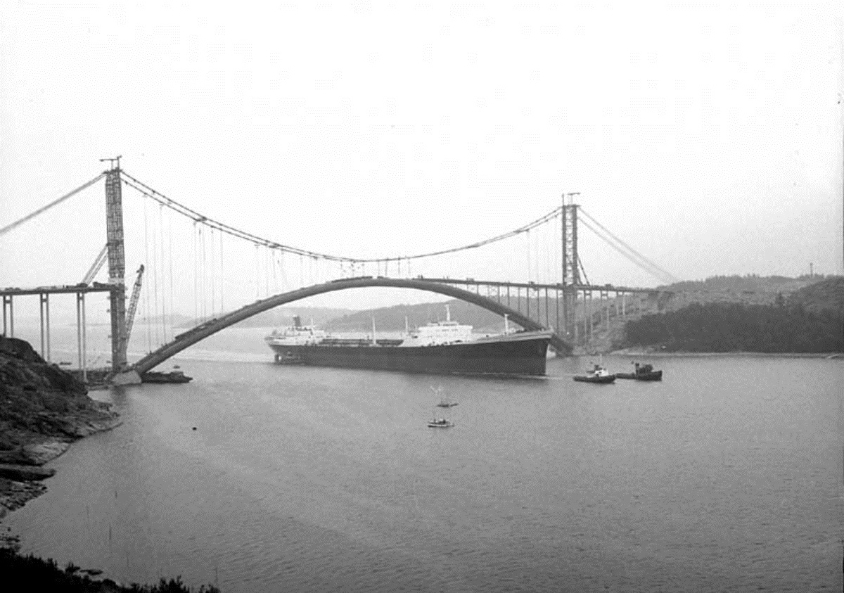 The Almö Bridge, under construction in October 1959, with the T/T W. Alton Jones passing under it. It was inaugurated June 15th, 1960. The bridge connected the island of Tjörn (Sweden's 7th largest island) to the mainland. The bridge collapsed January 18th 1980, when the bulk carrier MS Star Clipper struck the bridge arch. Eight people died that night as they drove over the edge until the road on the Tjörn side was closed 40 minutes after the accident. A new cable-stayed bridge, Tjörn Bridge, was built and inaugurated in 1981.